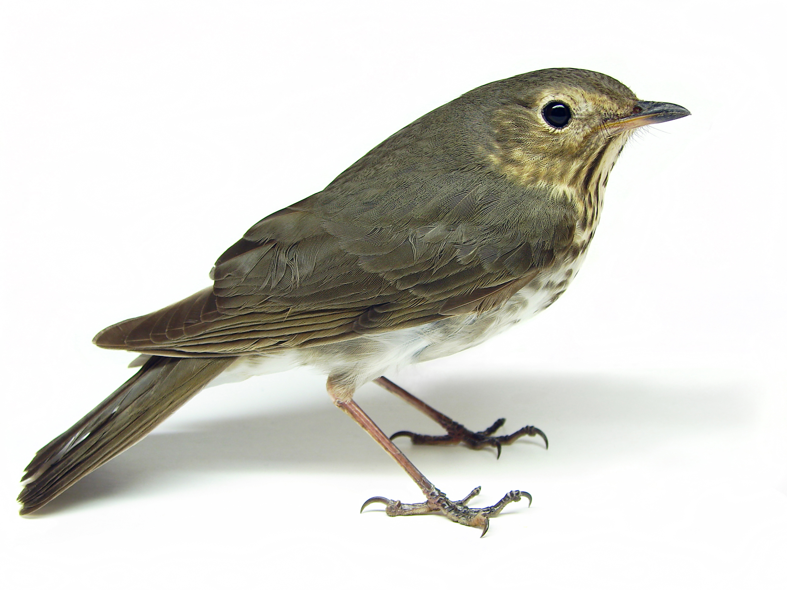 Swainson's thrush, Catharus ustulatus, that got stuck in a storage shed in North Dakota, USA. It was photographed indoors and let go outside.